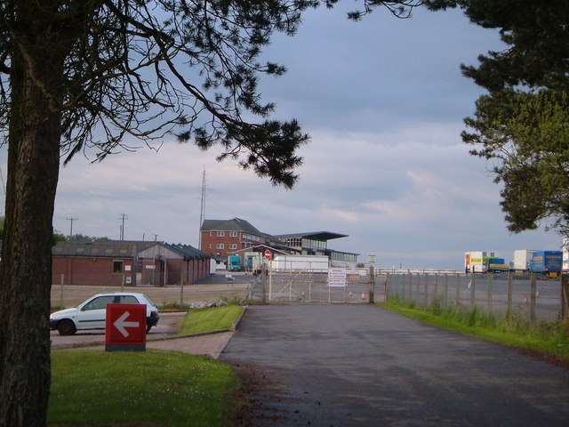 Buildings at Exeter Racecourse